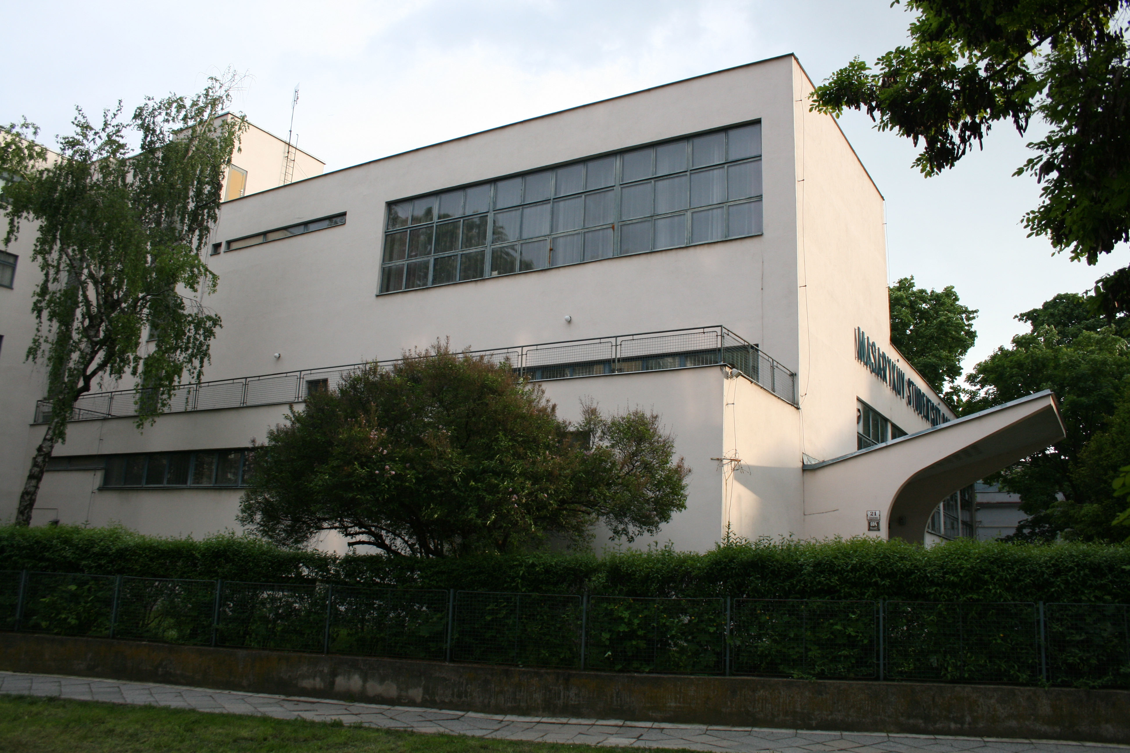 Masaryk Students’ Home at Cihlářská street 21 in Brno, Czech Republic. Functionalist building by Bohuslav Fuchs. Česky: Masarykův studentský domov na Cihlářské ul. 21 v Brně. Funkcionalistická budova architekta Bohuslava Fuchse. Celkový pohled na hlavní budovu od východu.